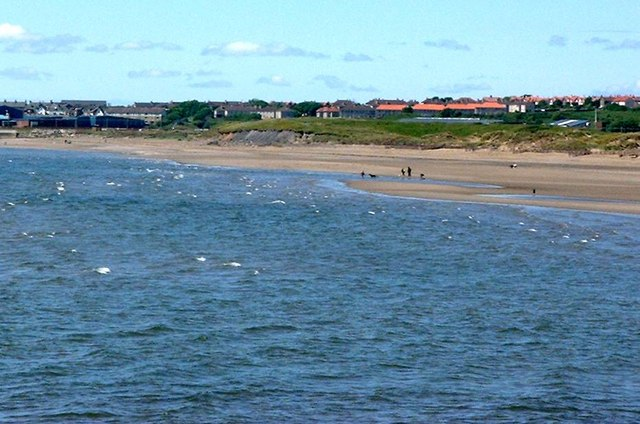 Stevenston beach LNR Stevenston beach Local Nature Reserve from Stevenston point.